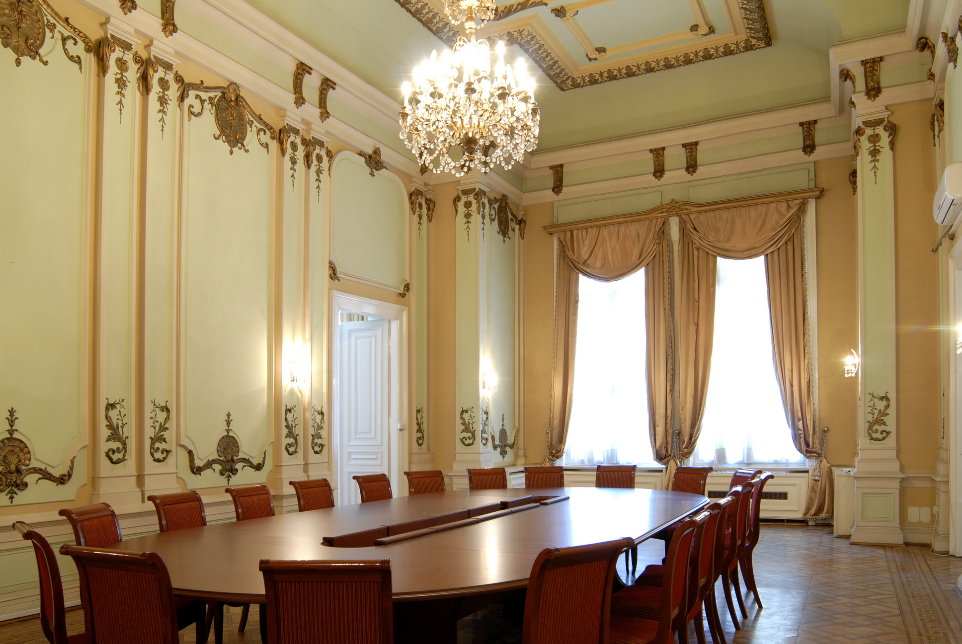 Balska dvorana